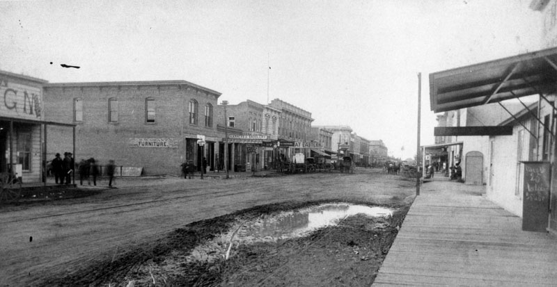 A photograph taken in 1887 of Fourth Street looking west from where it interscects with Bush Street in Santa Ana.